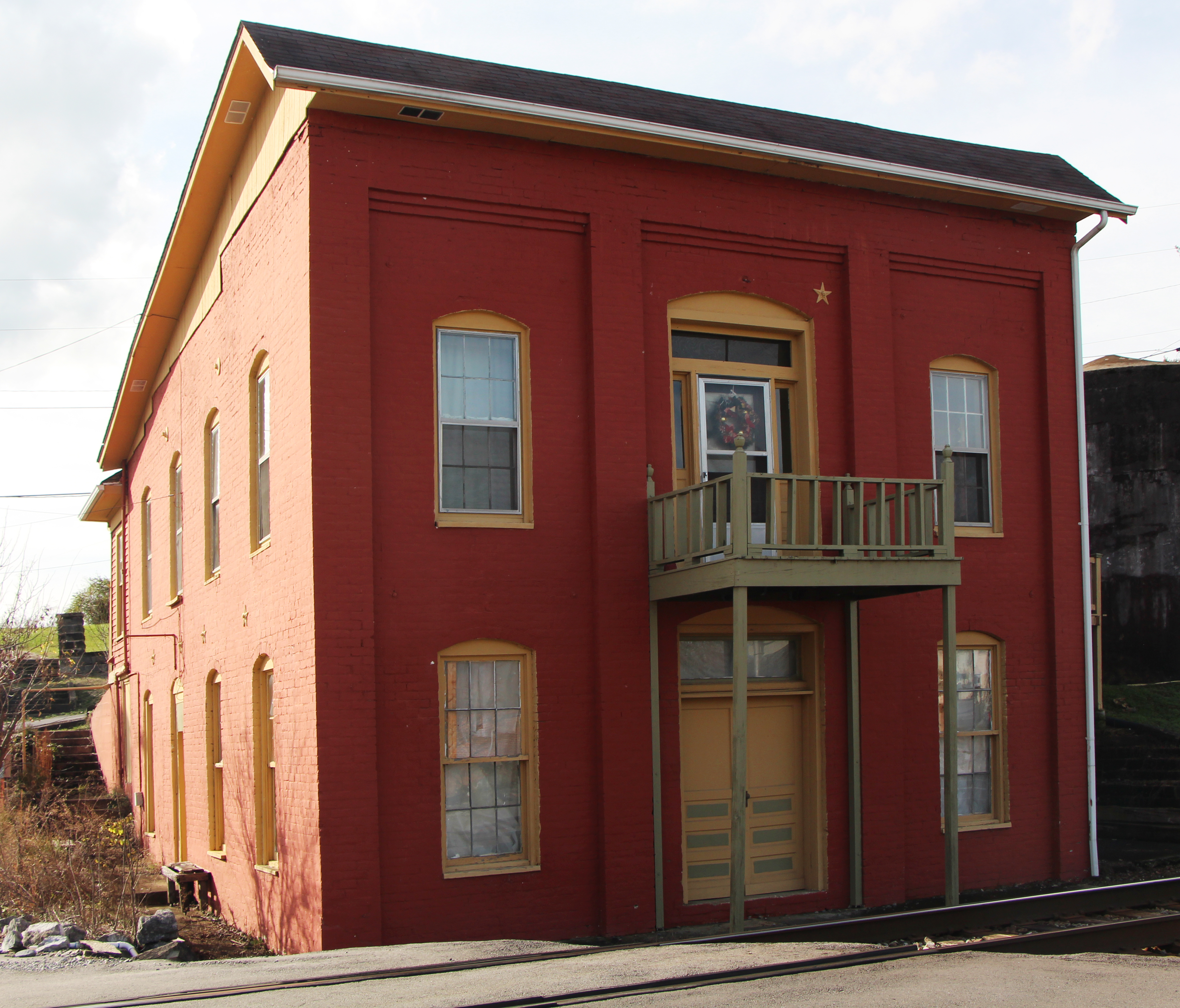 Old Guima Hotel, 100 South Main Street, Bulls Gap, TN